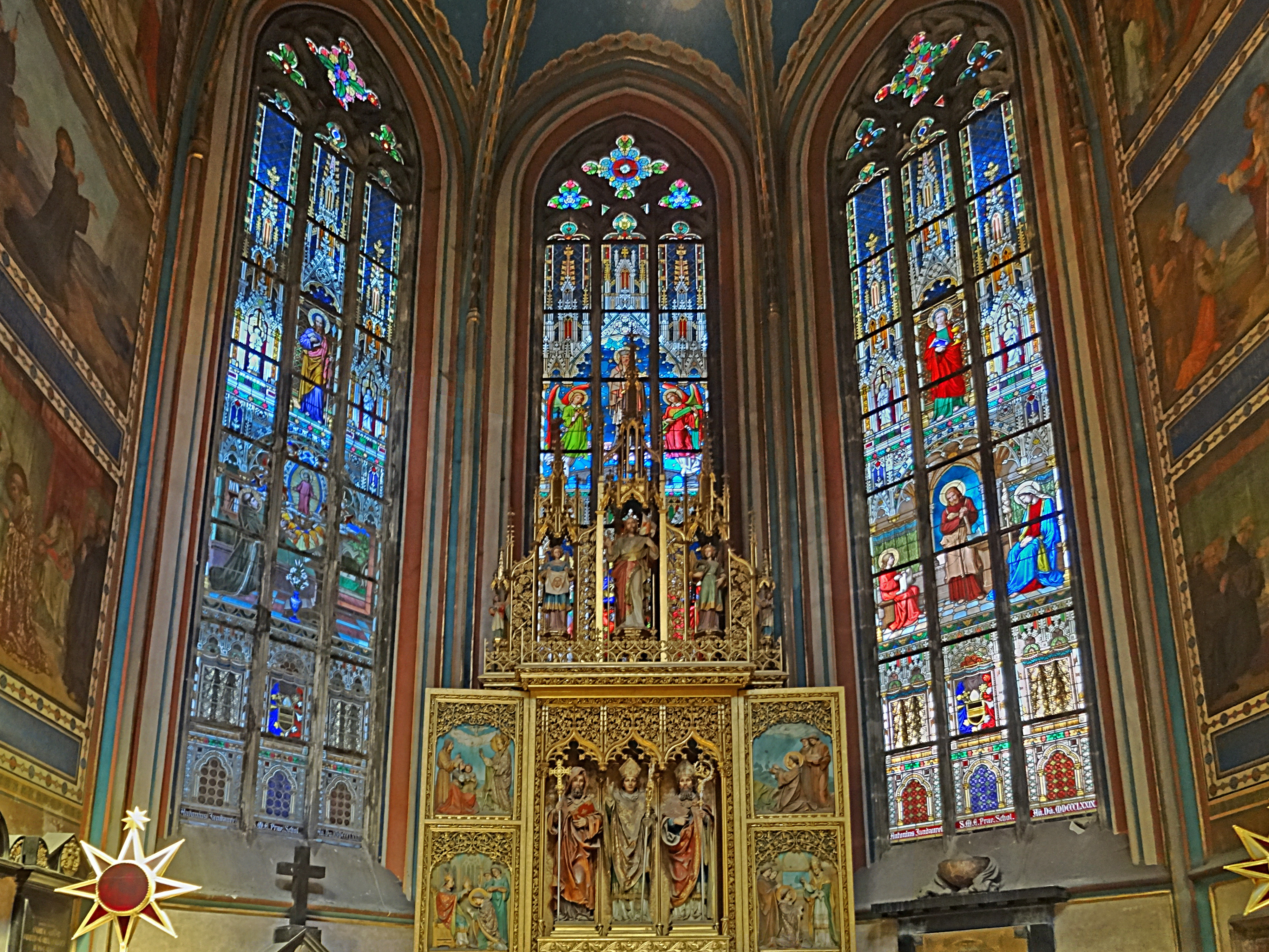 Stained glass window in the Old Archiepiscopal Chapel of the Prague St. Vitus Cathedral